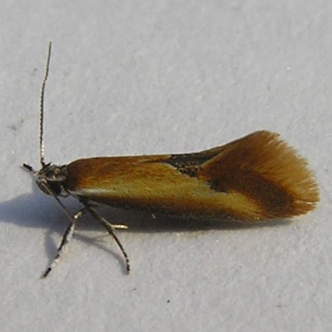 Batia lunaris (Goes, the Netherlands)